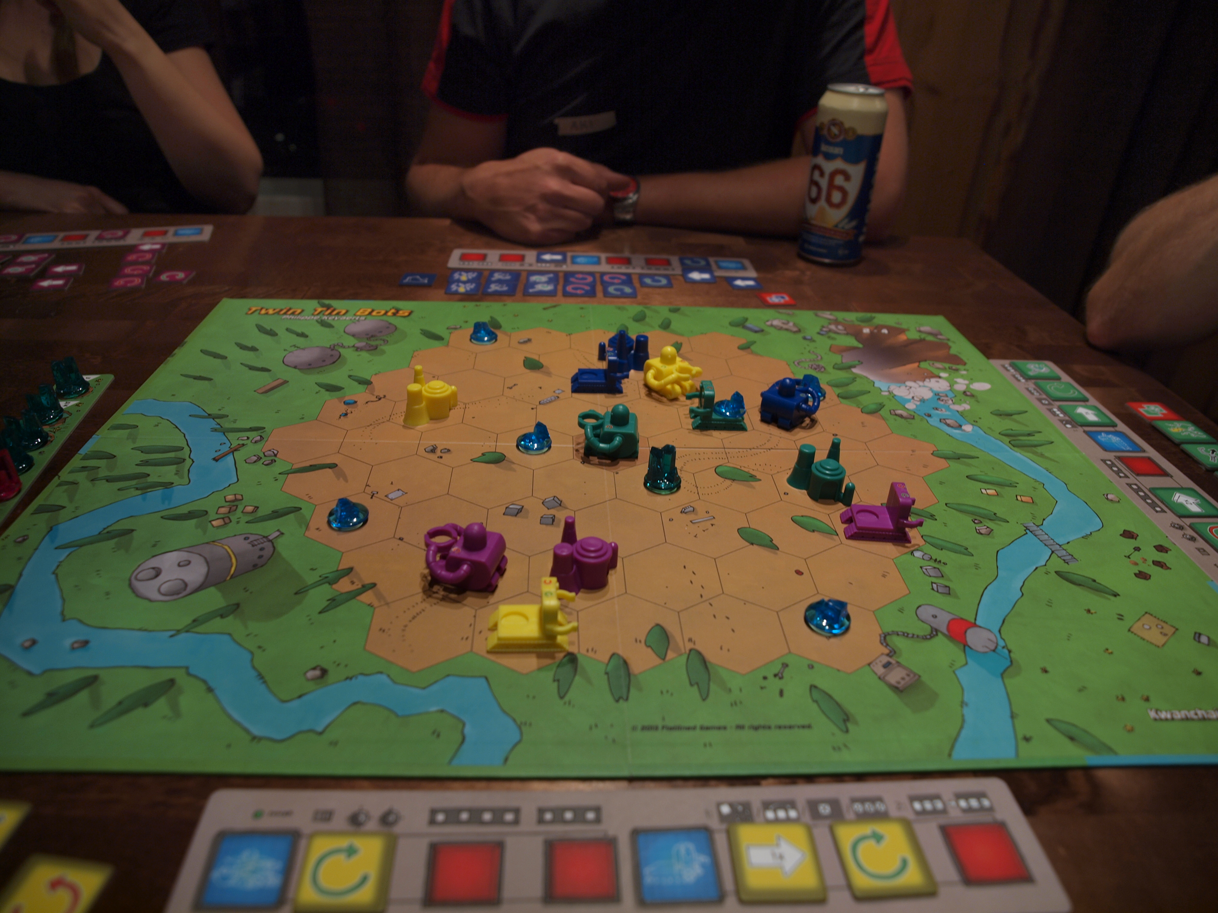 A game of Twin Tin Bots being played at a special board game weekend camp in Finland.